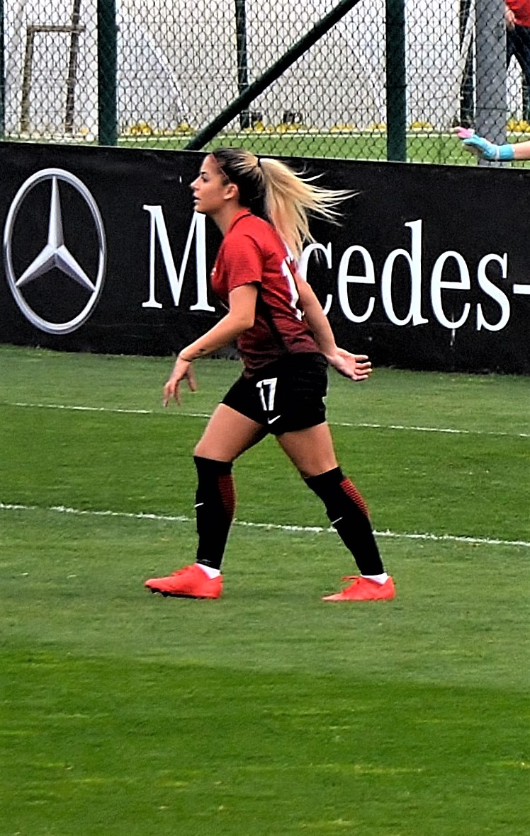 Sevg Çınar playing for Turkey women's national football team in the friendly match against Estonia at TFF Riva Facility on 7 April 2018.